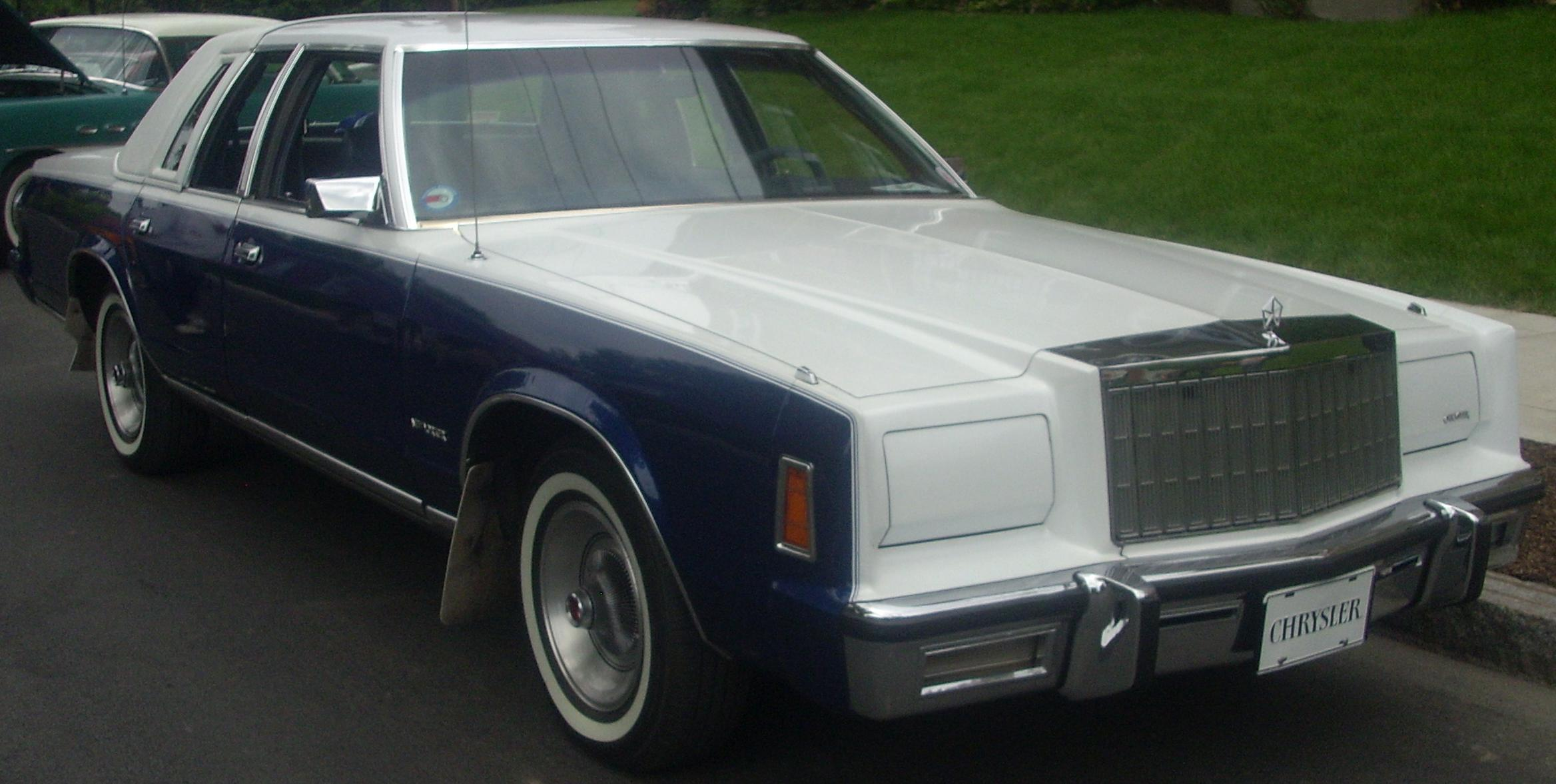 1980 Chrysler New Yorker photographed in Ste. Anne De Bellevue, Quebec, Canada at Cruisin' At The Boardwalk 2010.